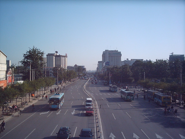 City roads in central Beijing. DF08 (English) 2004 image.